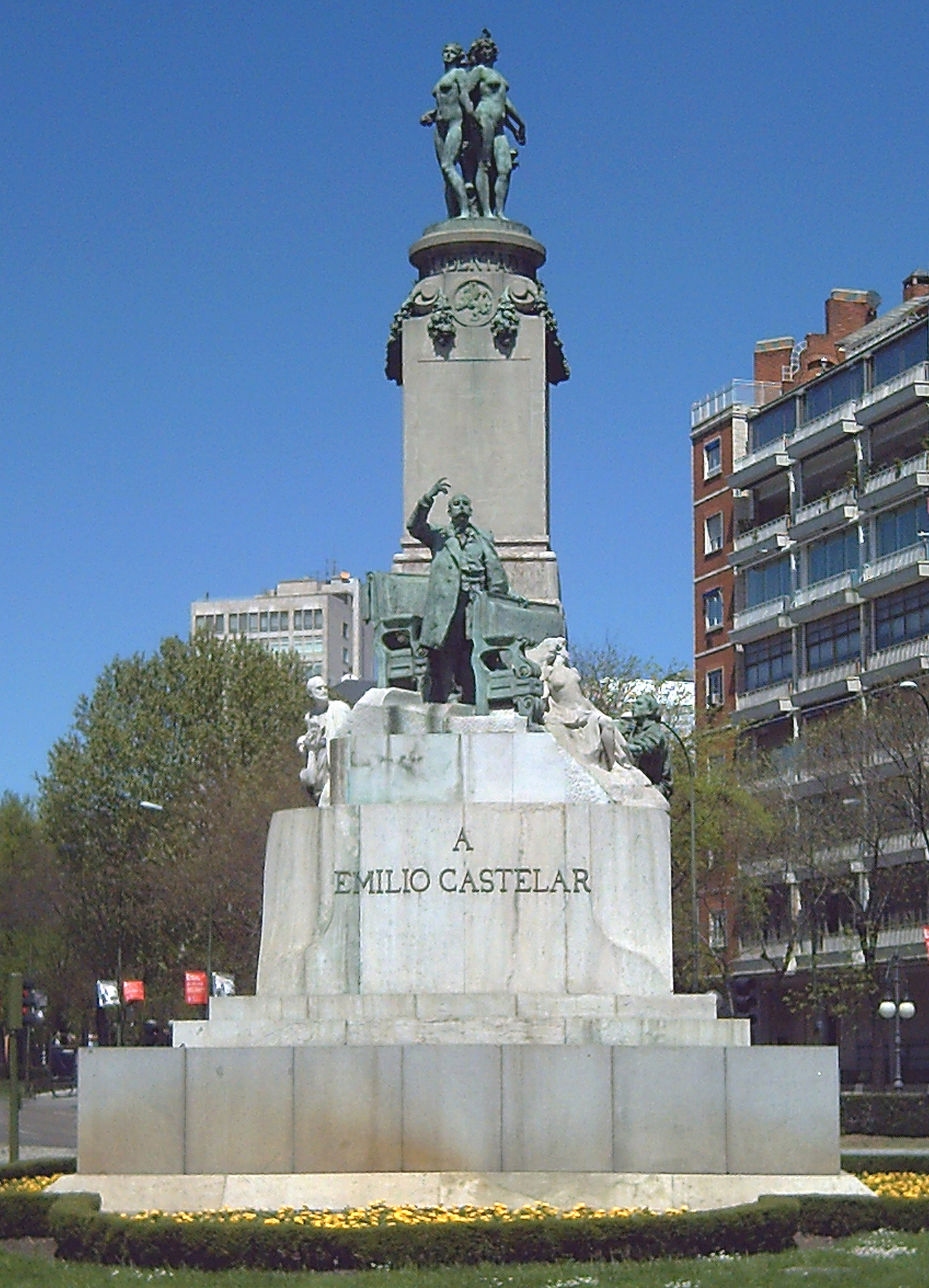 Monument to Emilio Castelar y Ripoll (1832–1899) in Madrid (Spain). Inaugurated in 1908. Made of stone, marble and bronze by sculptor Mariano Benlliure (1862–1947). Measurements: 12.00 x 7.50 x 8.60 metres.